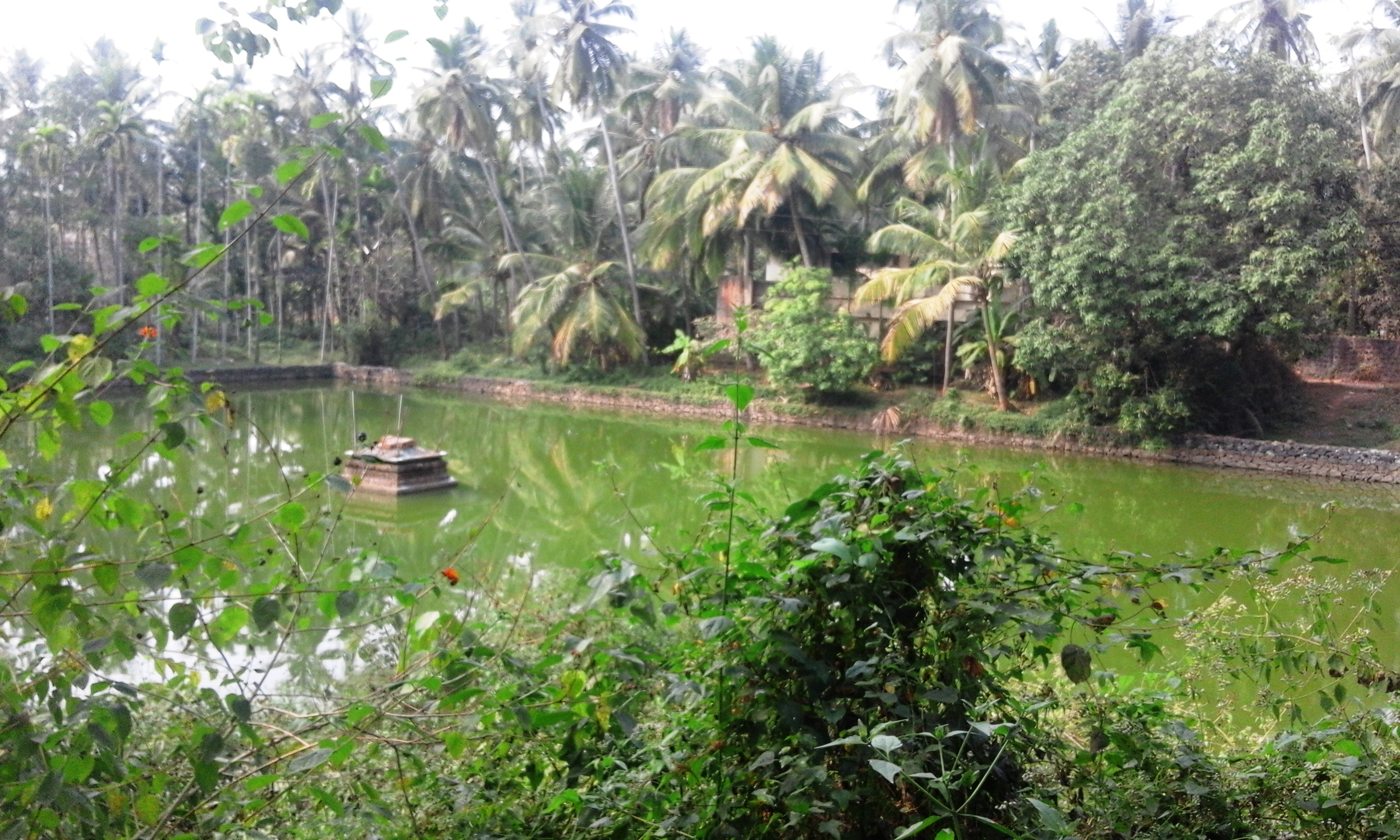 Kolakkuth, Idimuzhikkal, Ramanattukara, Kerala, India.